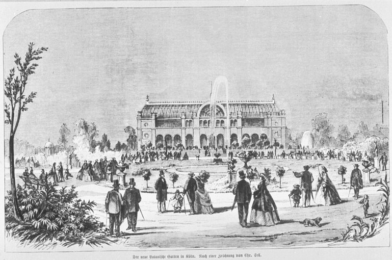 Sell, Christian, Flora (alte) 1862 nach Plänen von Lenné angelegt, rba_mf120910.